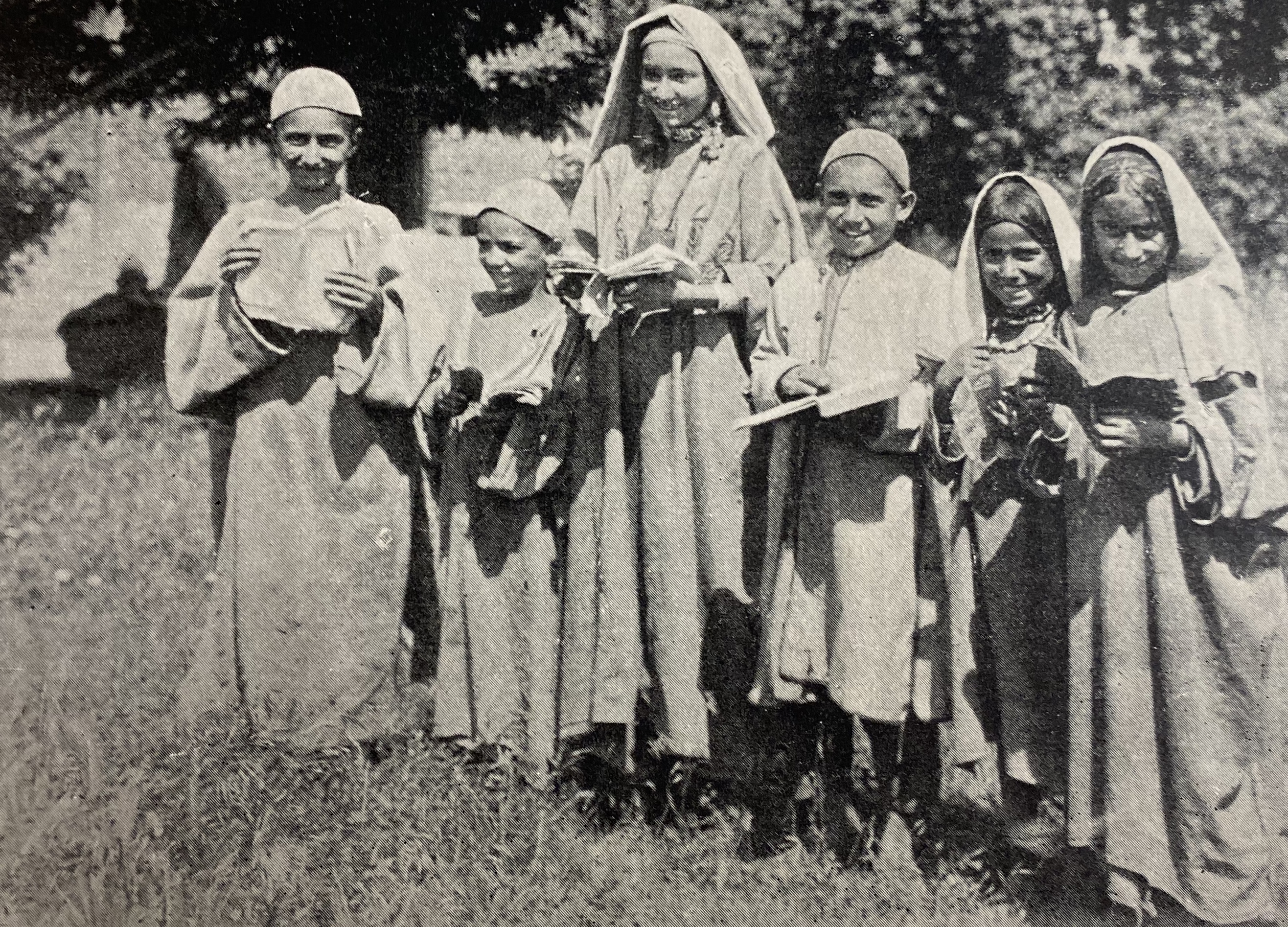 Patients/students at the North India Leper Hospital during the time of the Neve family missionaries (early 20th century).